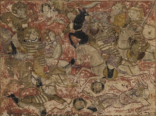 Folio from a Tarikhnama (Book of history) by Balami